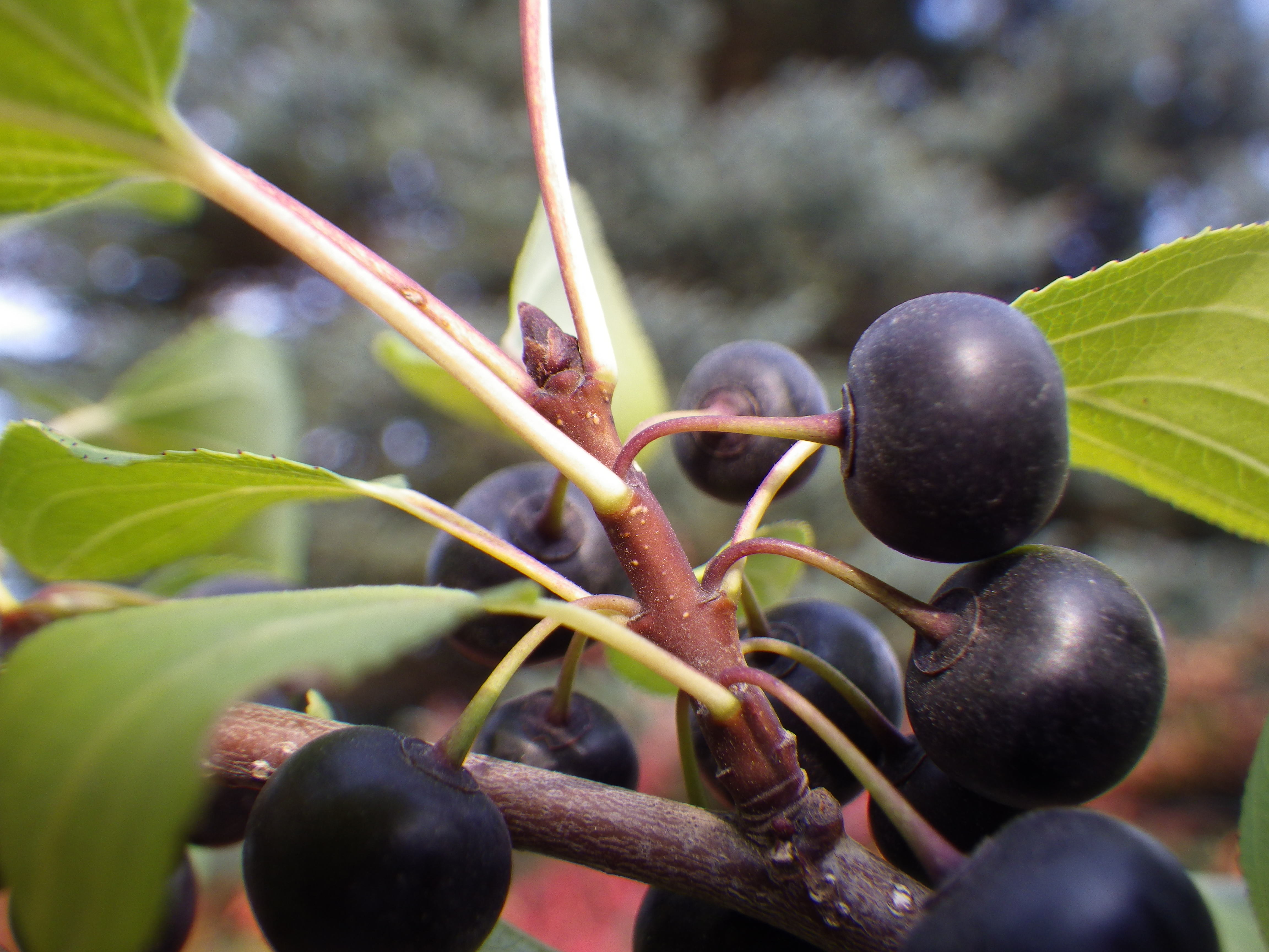 A dioecious shrub to small tree so individuals like this that bear fruit produced the pistillate flowers. The receptacle at the base of the fruit becomes a hardened disc as maturity.